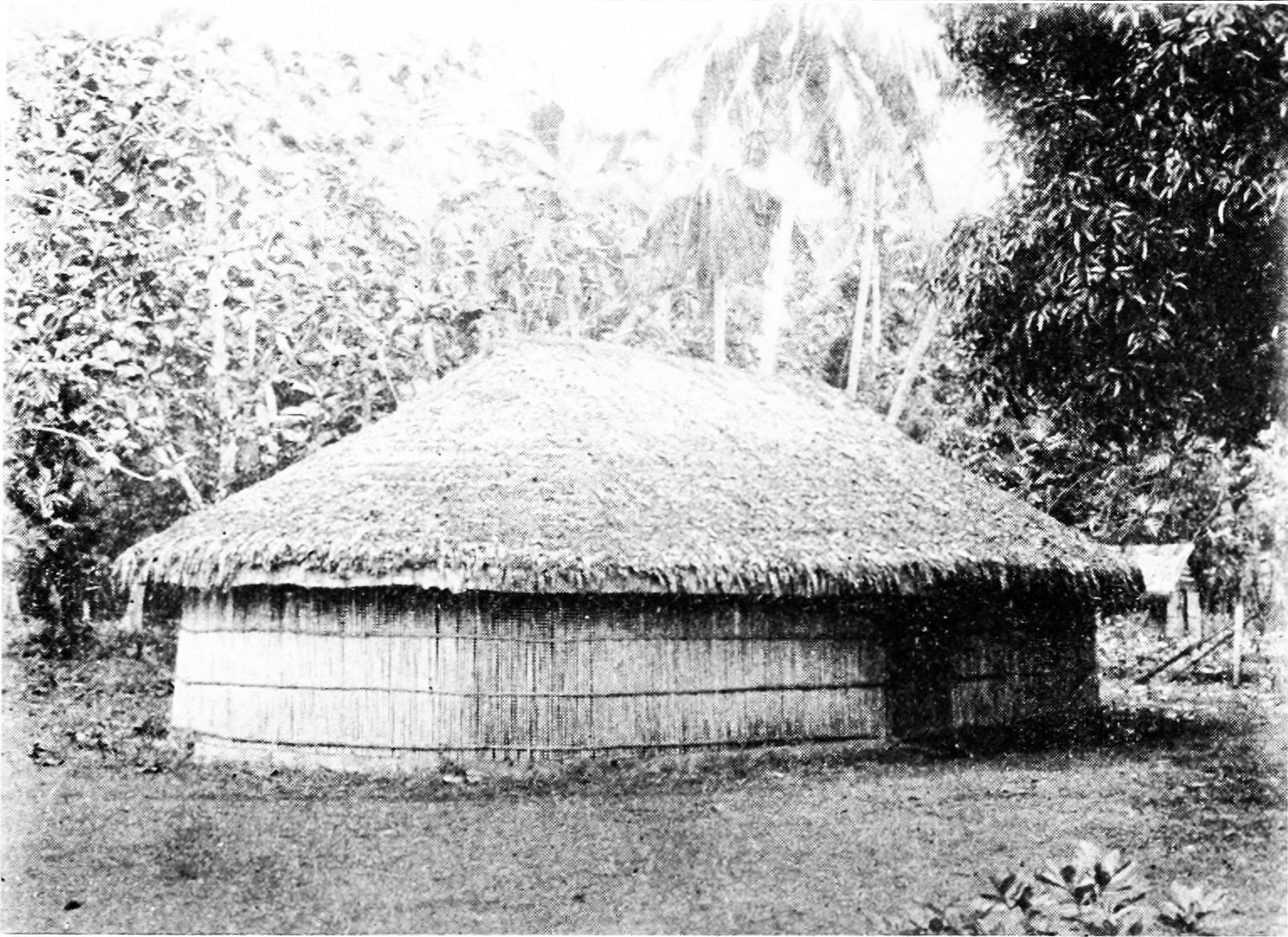 Native house at Papara, Tahiti